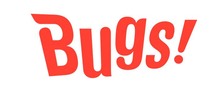 Bugs! logo